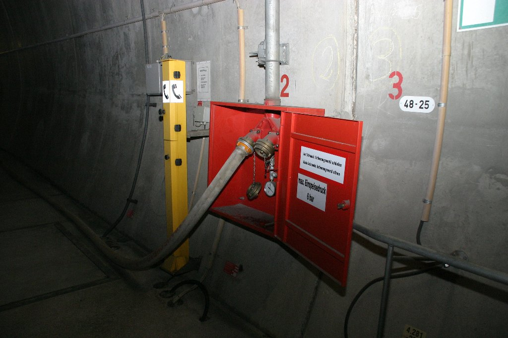 A wall-mounted fire hydrant during a large-scale rescue practice on Günterscheid Tunnel.